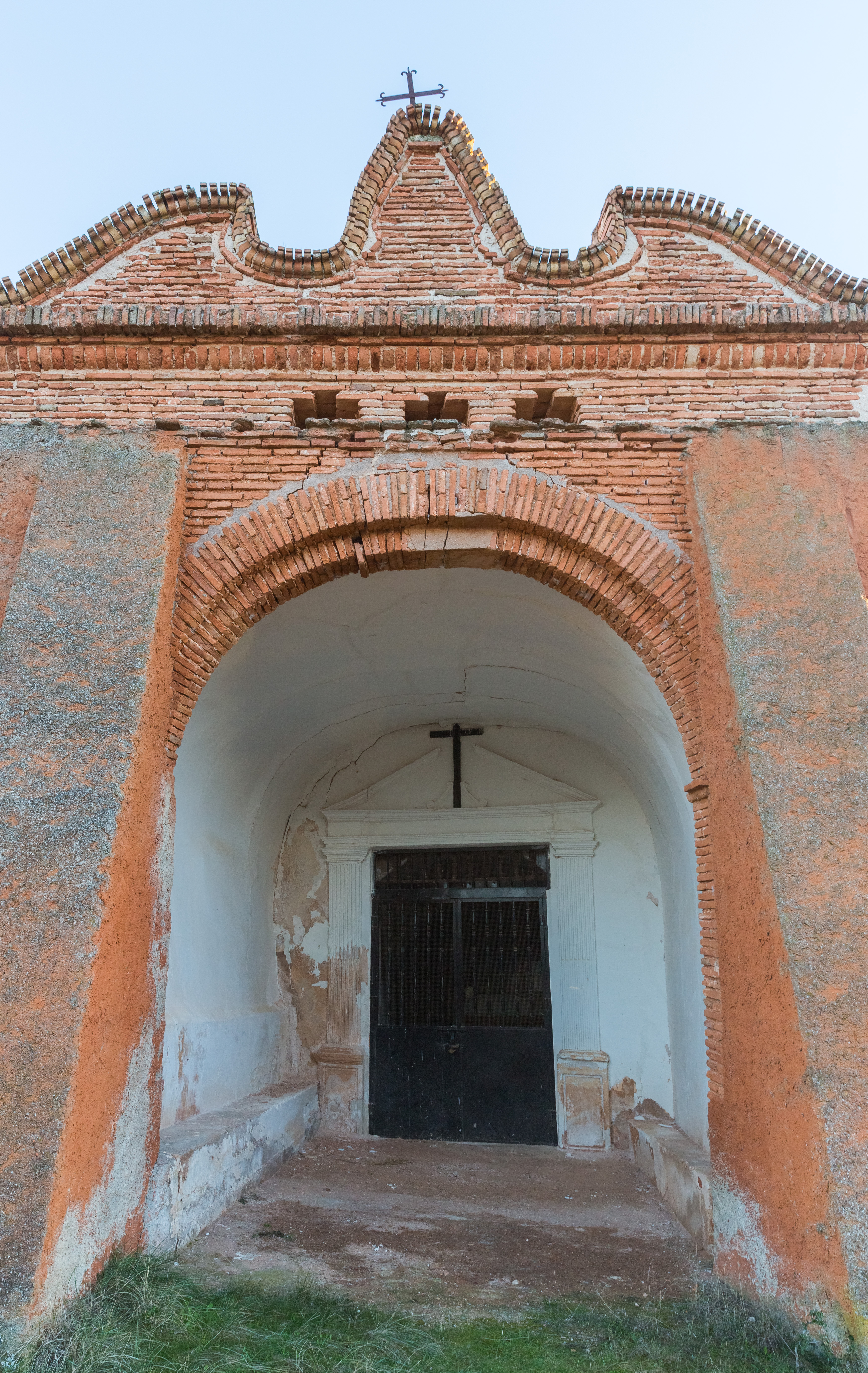 Hermitage of the Holy Sepulchre, Ibdes, Zaragoza, Spain